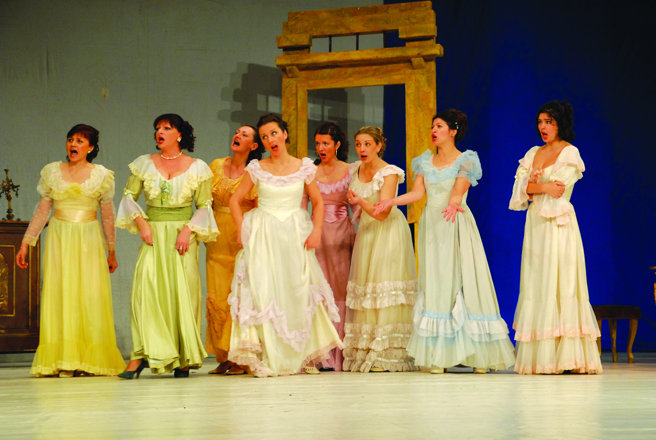 "Das Apfelfest" Operetta, Opera Choir, SNT, Novi Sad, 2006/07 Srpski (latinica): Jabuka, opereta Johana Štrausa, hor Opere, SNP, Novi Sad, 2006/07. Српски (ћирилица): "Јабука", оперета Јохана Штрауса, хор Опере, СНП, Нови Сад, 2006/07.